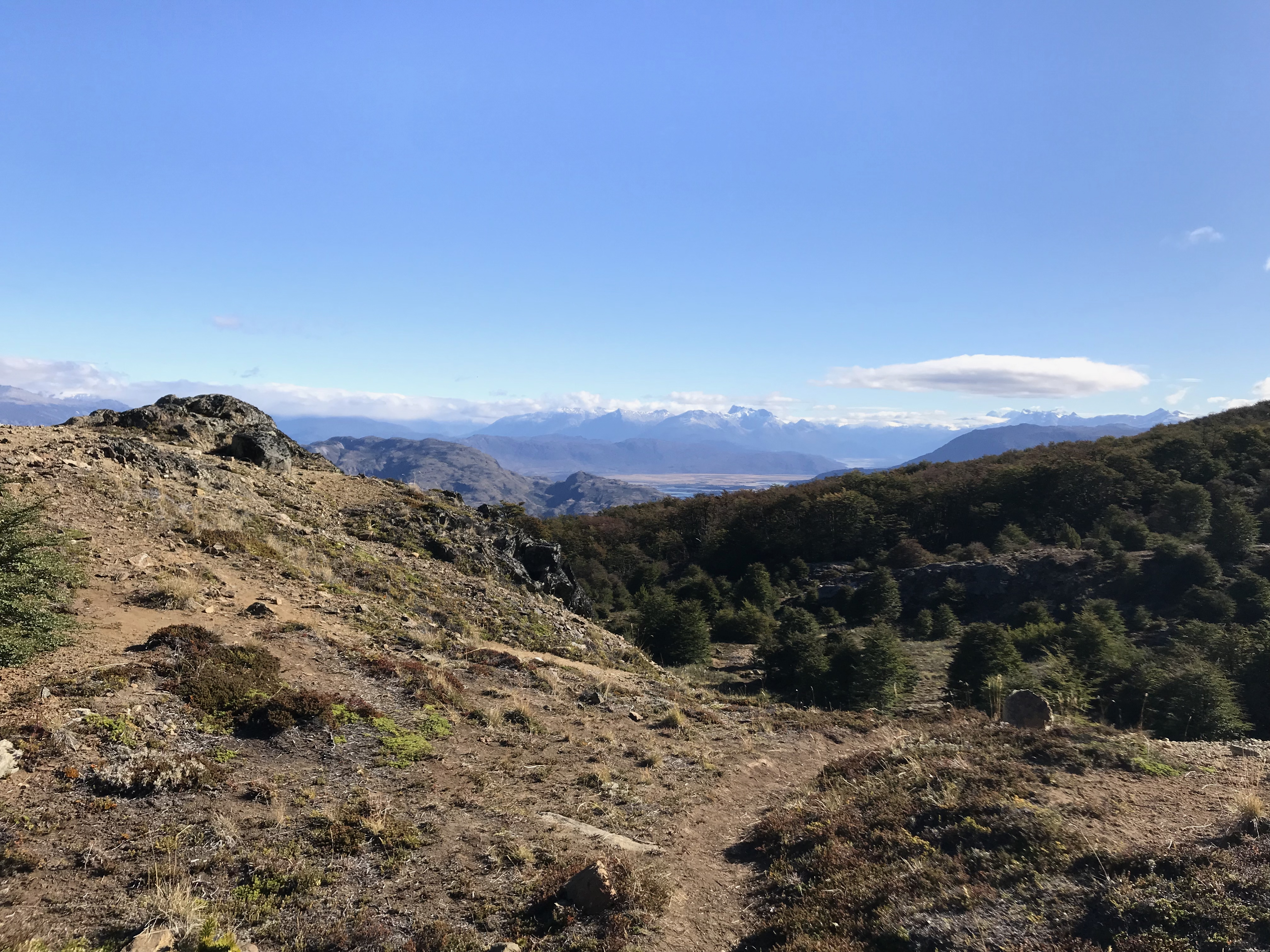 Tamango Reserve descending to Cochrane